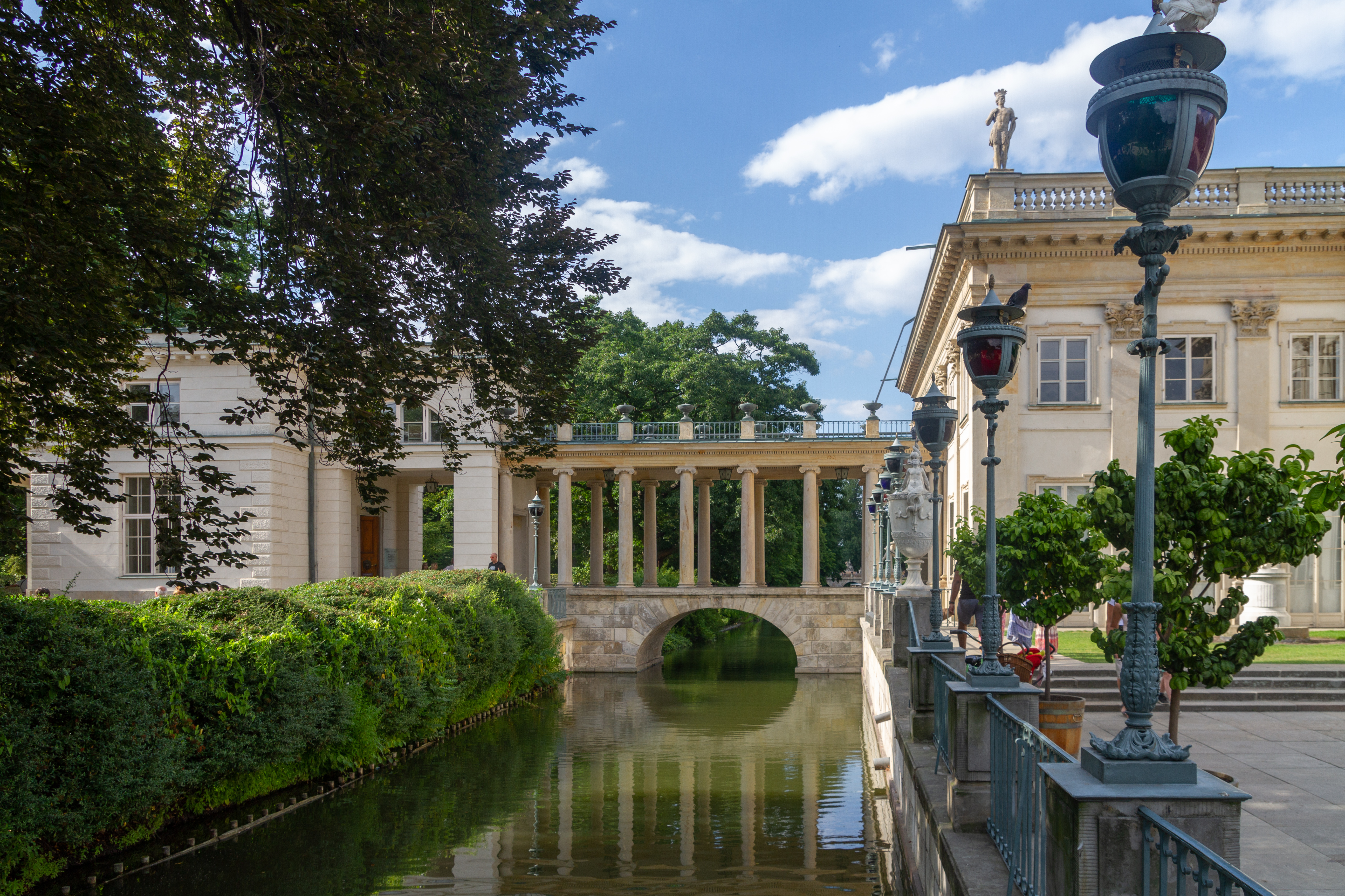 Royal Park in Łazienki, Warsaw